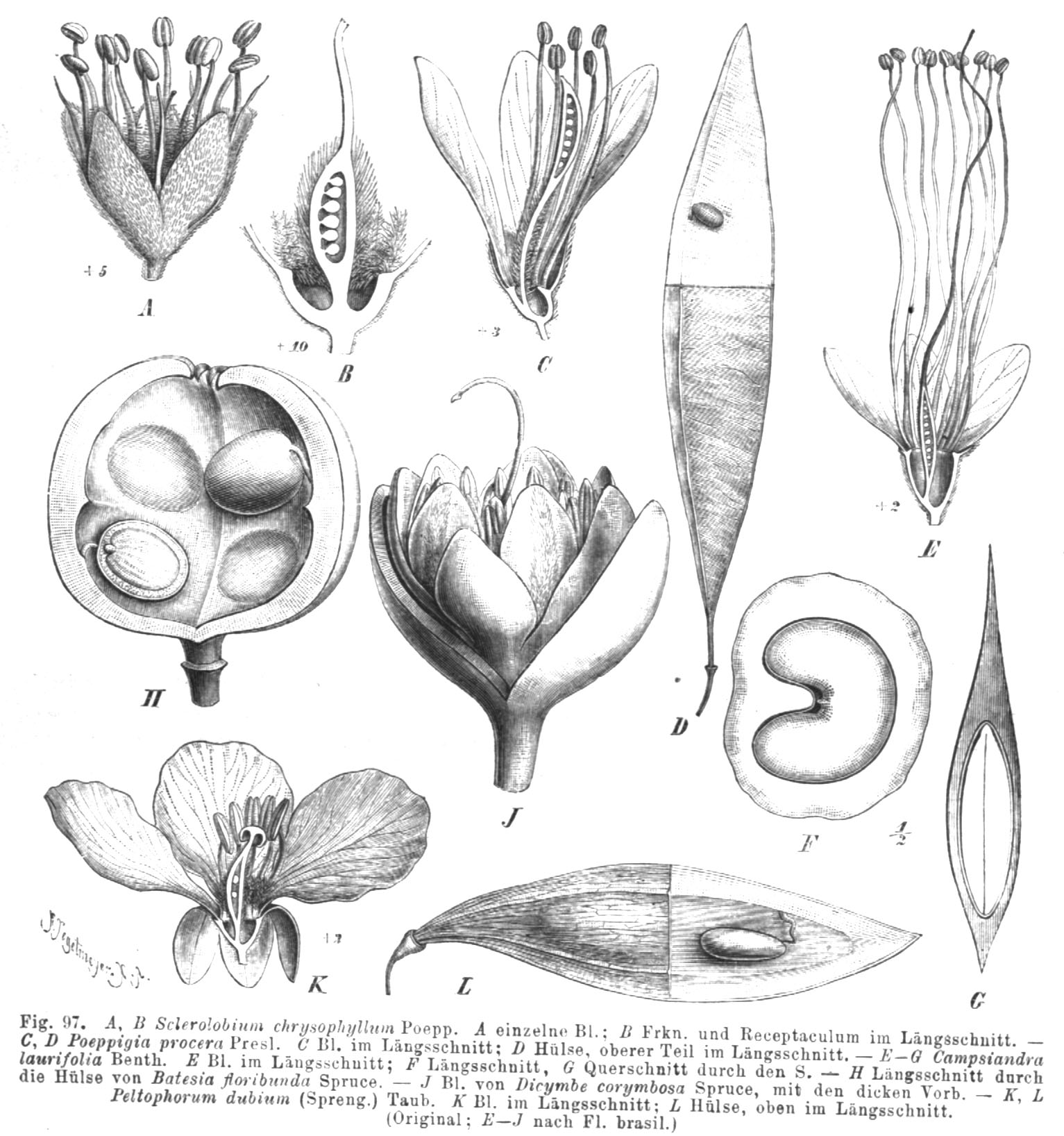 Illustration from book